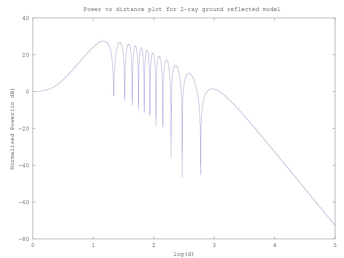 This plot is generated using the matlab/octave script ld=0:0.001:5; d=10.^ld; ht=50; hr=2; l_gr=sqrt( (ht+hr)^2+d.^2); l_los=sqrt( (ht-hr)^2+d.^2); R=-1; G_los=1; G_gr=1; lambda=1/3; phi=2*pi*(l_gr-l_los)/lambda; los=sqrt(G_los)./l_los; gr=R*sqrt(G_gr)*exp(-j.*phi)./l_gr; rs=lambda.*(los+gr)/4*pi; ps=abs(rs).^2; norm=ps(1); pn=ps./norm; x = ld; y =10*log10(pn); plot(ld,y); title('Power vs distance plot for 2-ray ground reflected model '); xlabel('log(d)'); ylabel('Normalized Power(in dB)'); print -deps graph.eps Using compiler